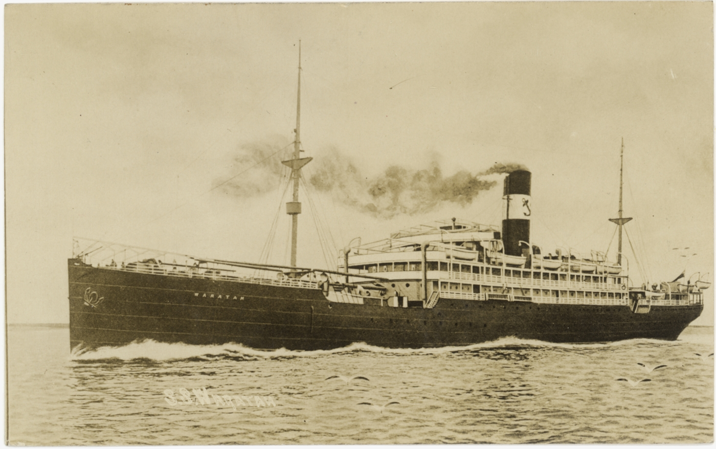 SS Waratah